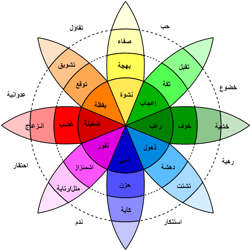 Robert Plutchik's Wheel of Emotions.